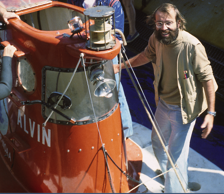 KC Macdonald prepares to dive to the East Pacific Rise hydrothermal vents at 21°N